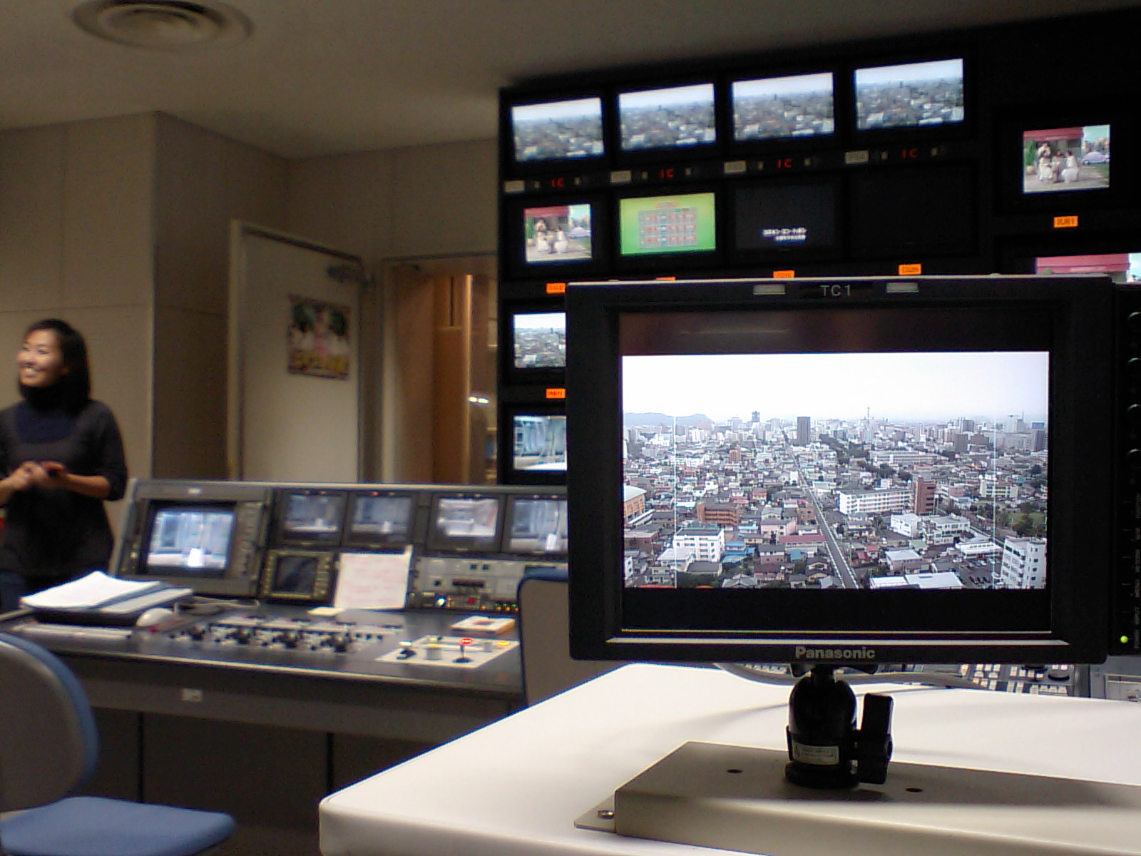 More info at: When FTV (Fukushima TV) did a news story on me and my unicycling, they let us look around in the studio. The particular monitor in question is showing the station's outdoor camera of the city.